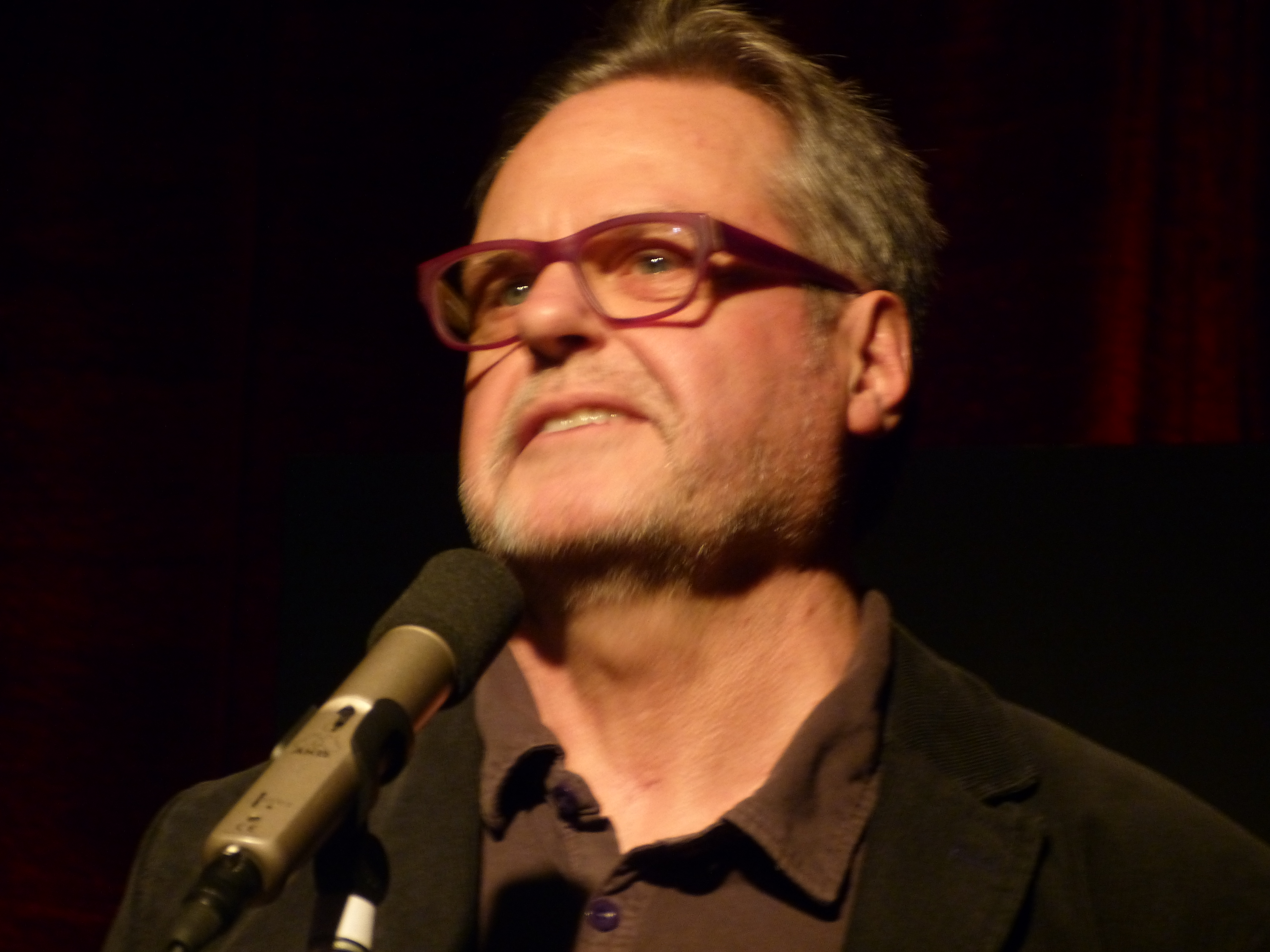 Michael Rüsenberg at his jazzcity.de-show at Loft (Cologne), Germany, January 17th, 2014